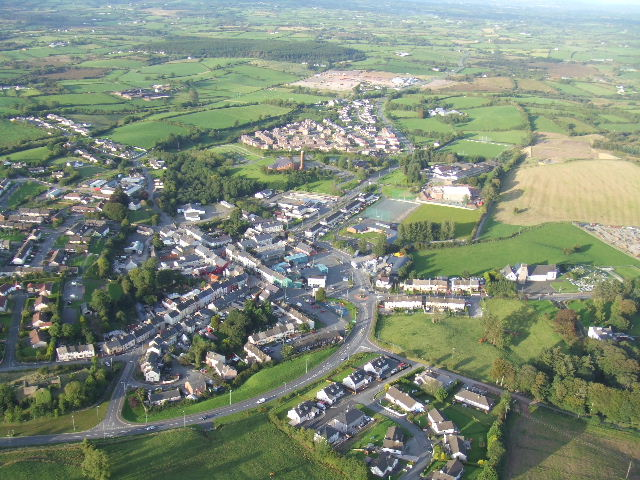 Dromore.